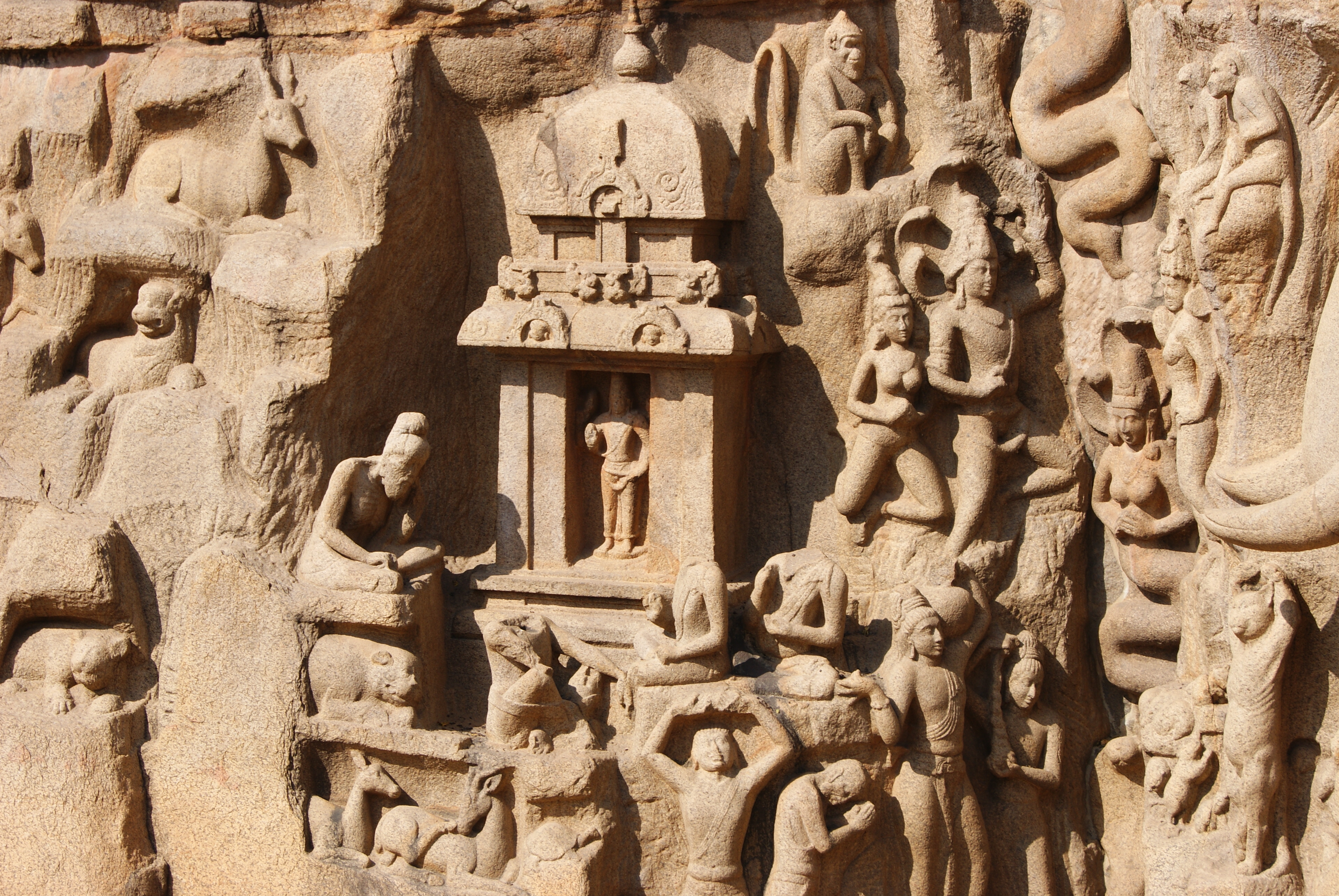 Mahabalipuram Caves detailing